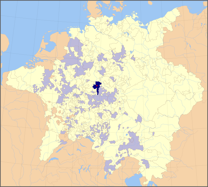 Map of the Holy Roman Empire, 1648, with the territories belonging to the prince-abbot of Fulda highlighted